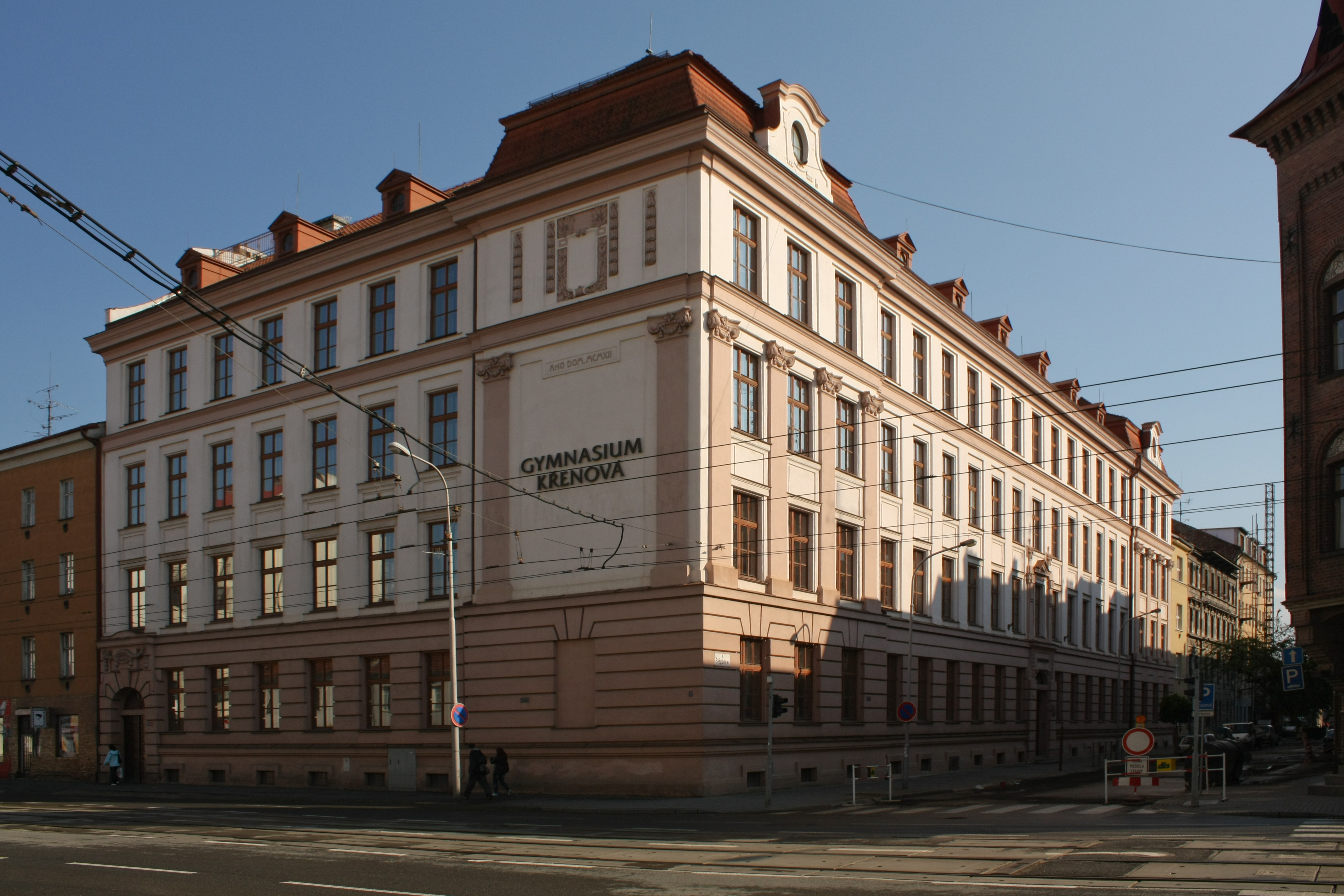 Křenová grammar school, Brno, Czech Republic